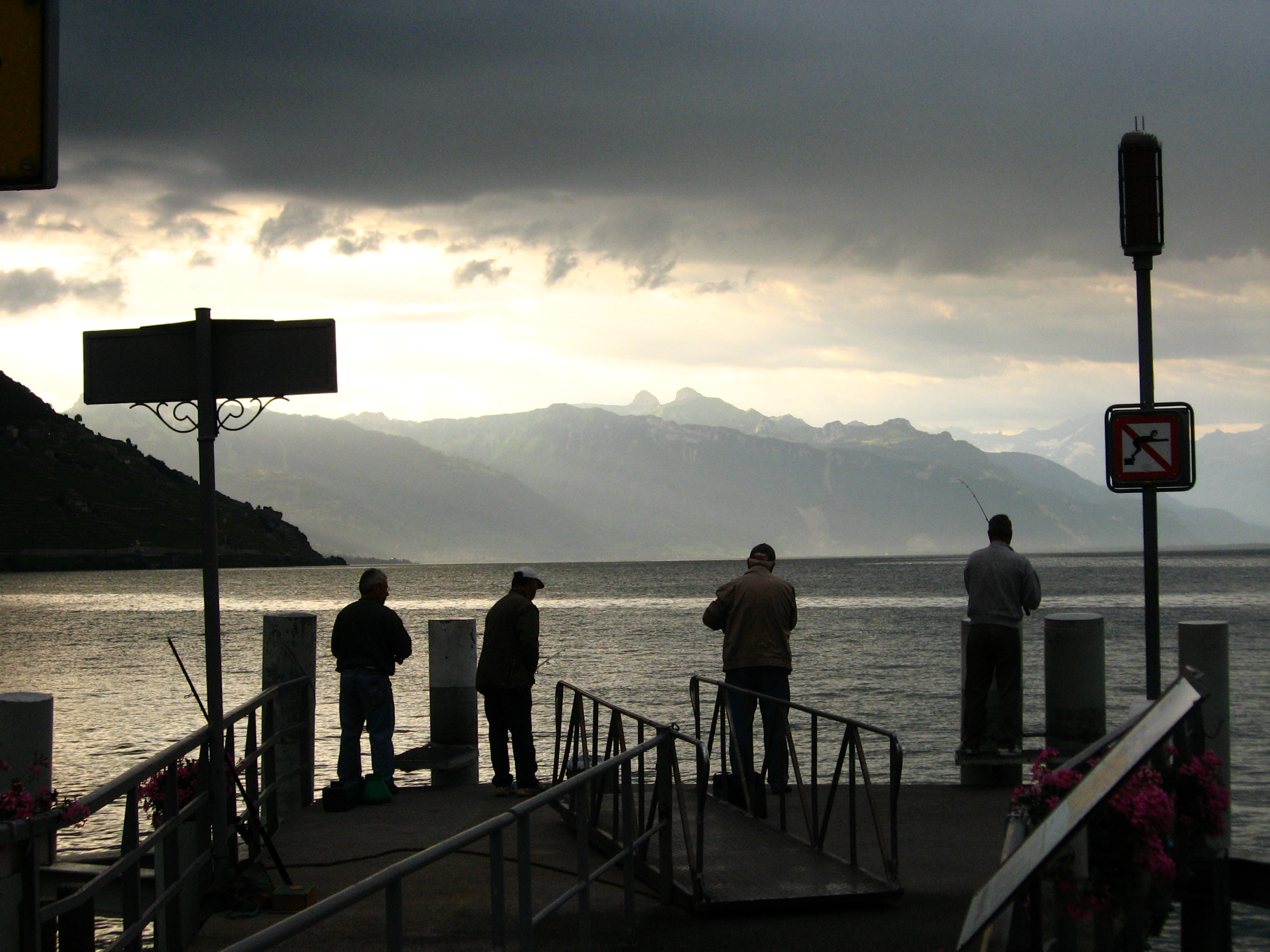 Cully, Switzerland